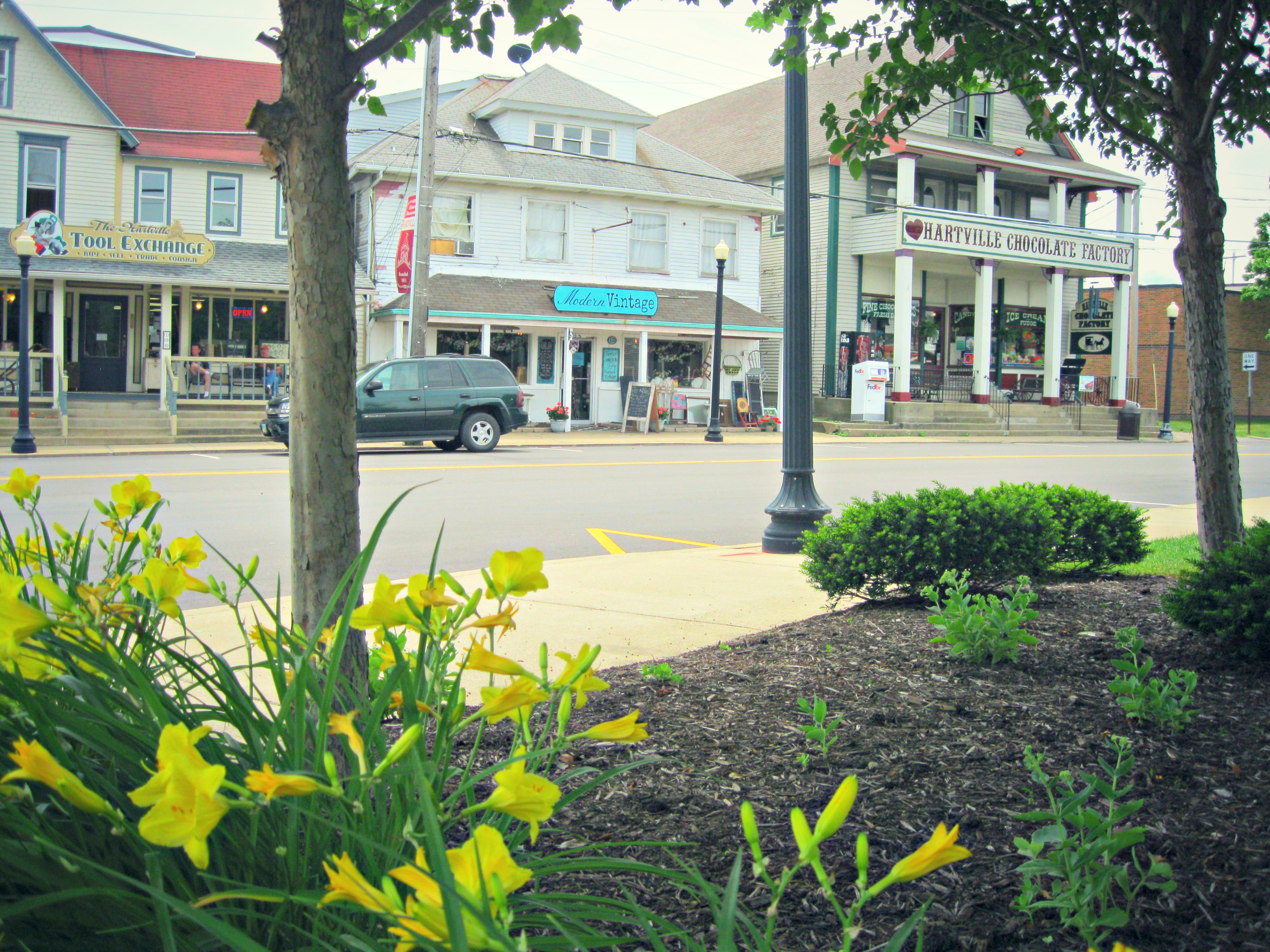 Historic buildings in Downtown Hartville, Ohio feature small businesses - Hartville Tool Exchange, Modern Vintage, and Hartville Chocolate Factory.